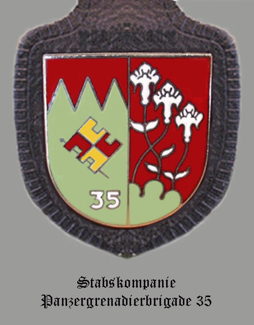 Internal coat of arms Stabskompanie Panzergrenadierbrigade 35 (StKp PzGrenBrig 35) of the Bundeswehr (Armed Forces of the Federal Republic of Germany). → Remarks on naming and categorization scheme